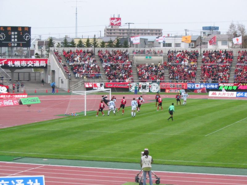 This shows a scene of the soccer match Consadole Sapporo vs. Avispa Fukuoka on May 2, 2004. The match was played in the Atsubetsu venue.